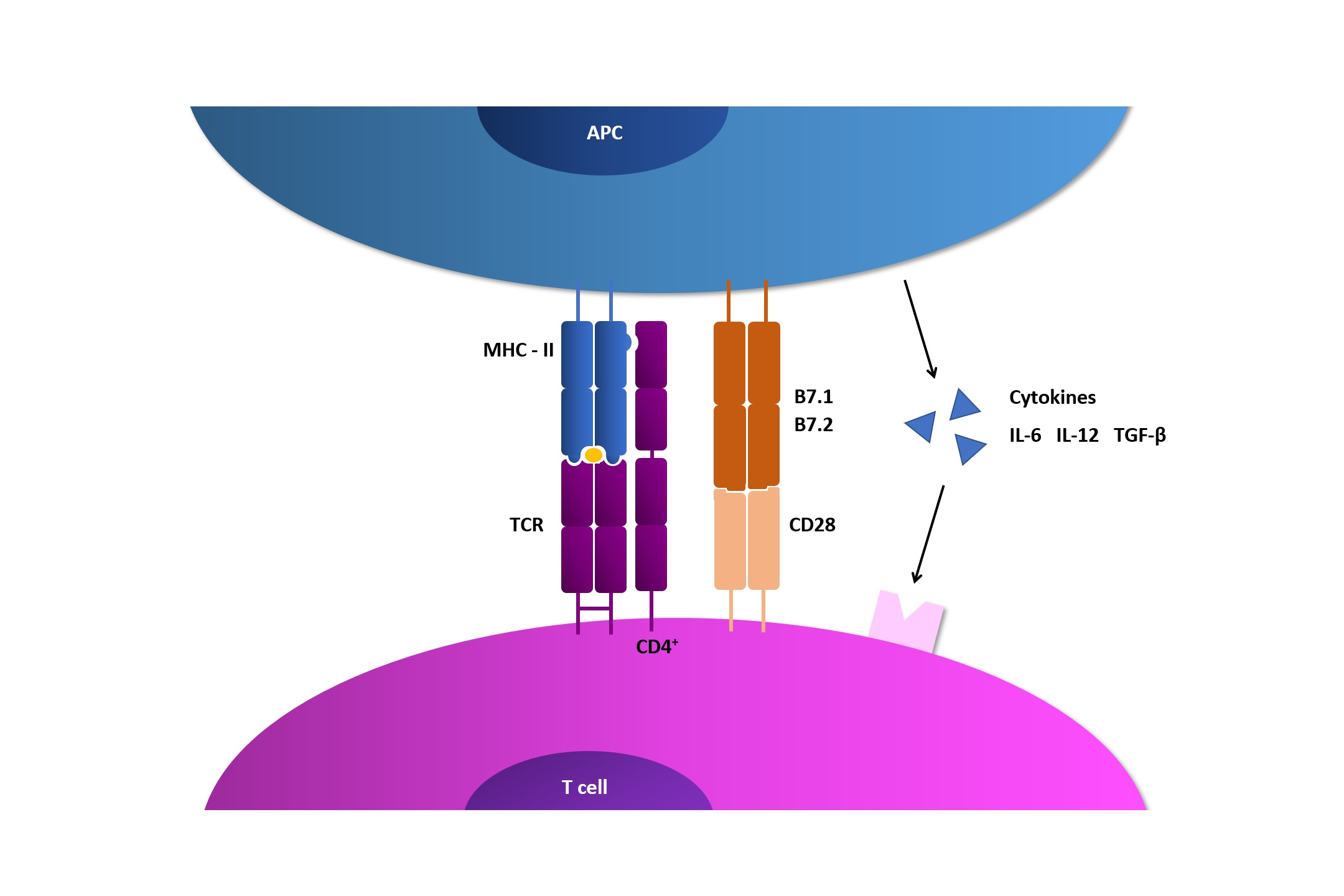 Activation of a T lymphocyte